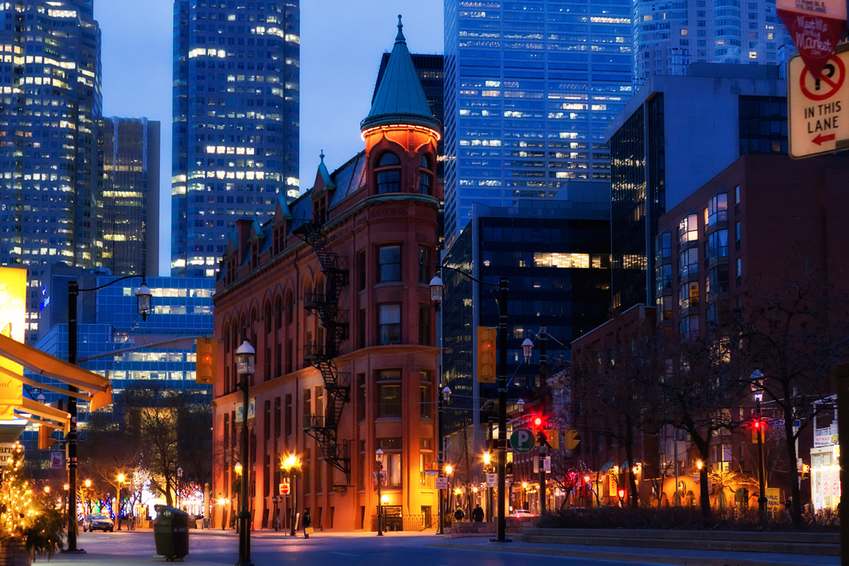 Gooderham Building